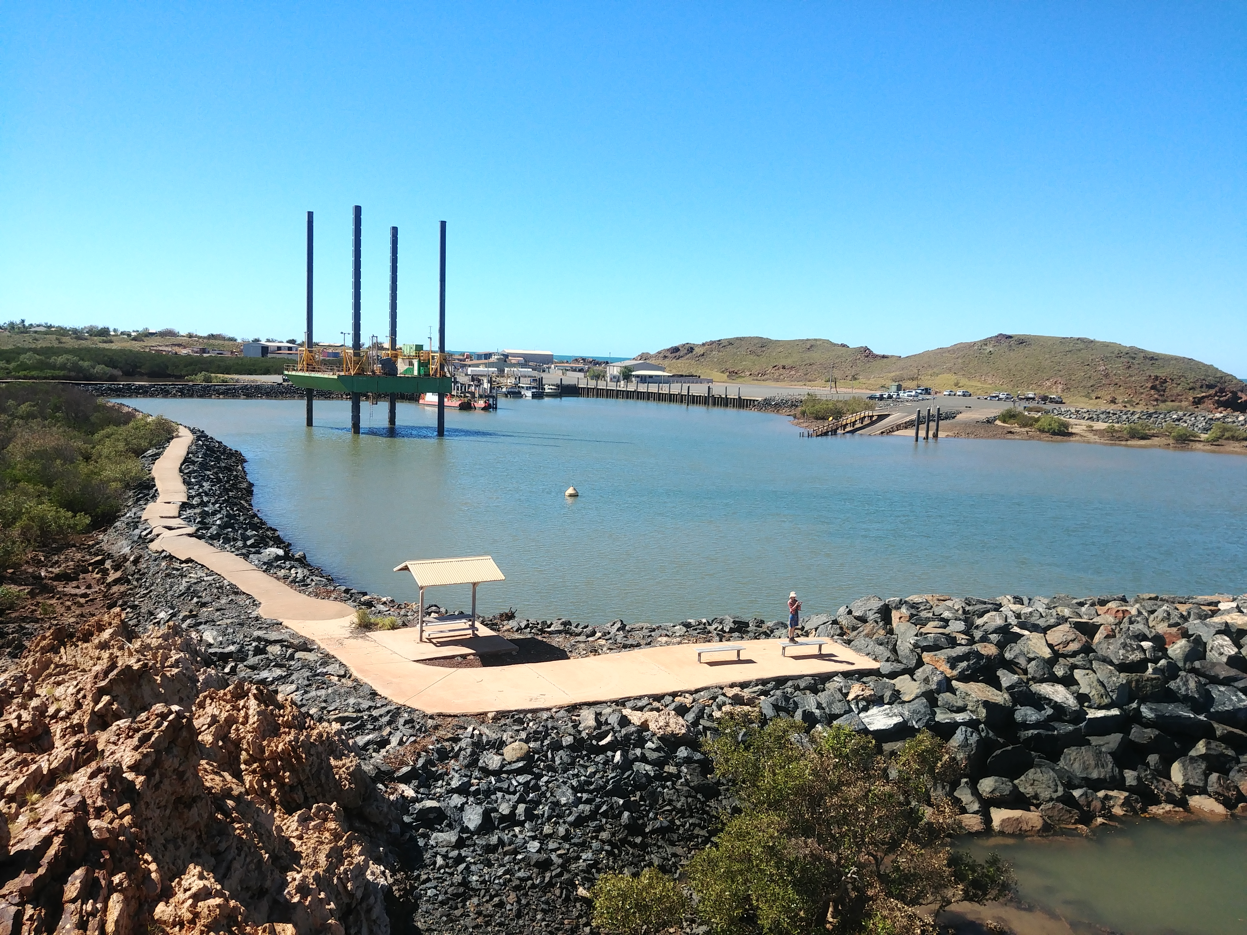 View of the whole harbour.